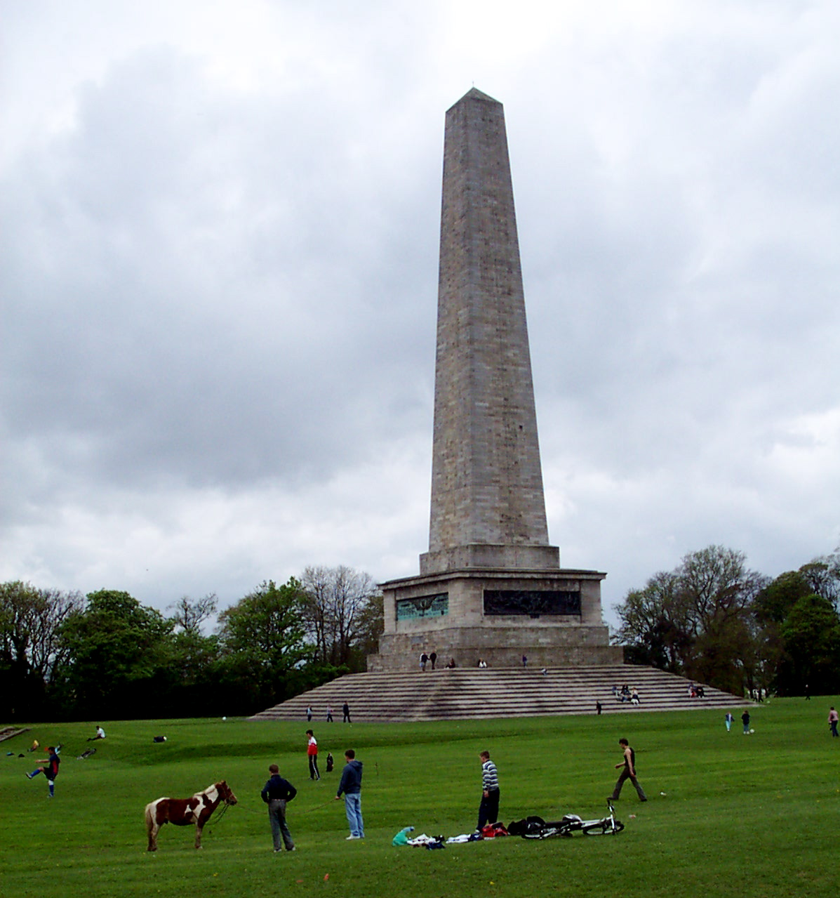 The Wellington Monument in Phoenix Park, Dublin, Ireland.